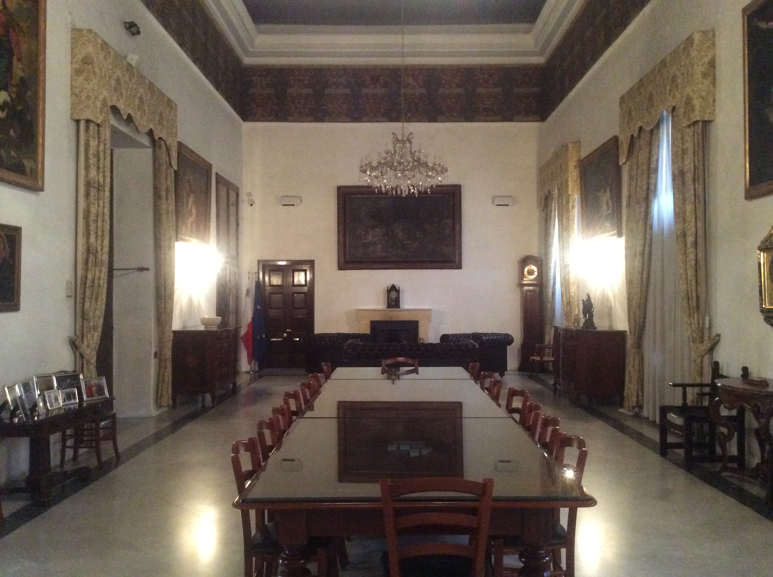 Main hall of the Castellania in Valletta, Malta